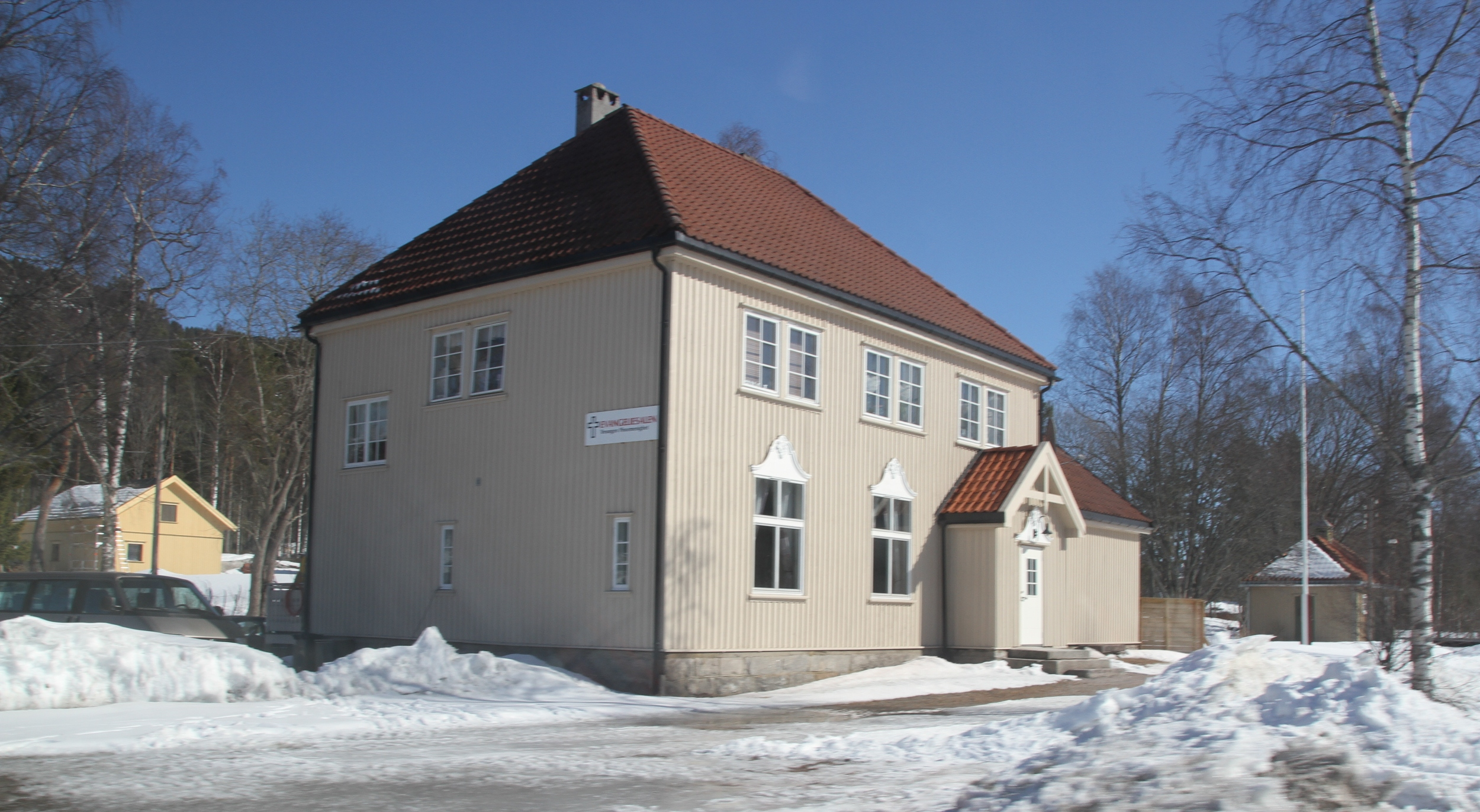 Image from the Treungen township, administrative center of the Nissedal municipality, Telemark county - Norway